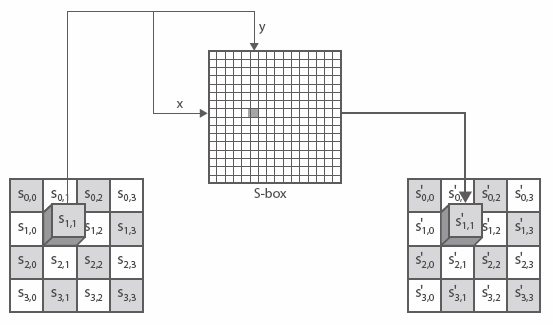 Unknown language: Байтын орлуулалт